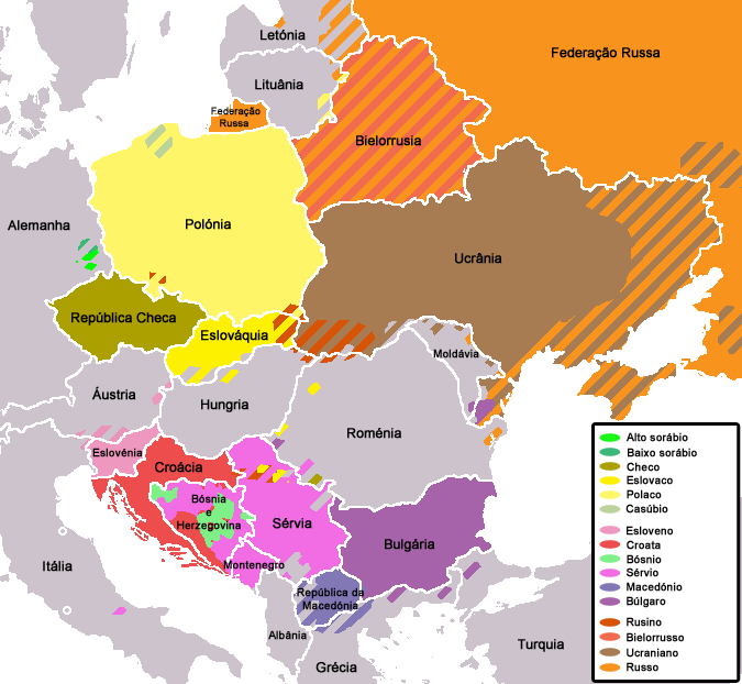 Map of Slavic languages in Portuguese.